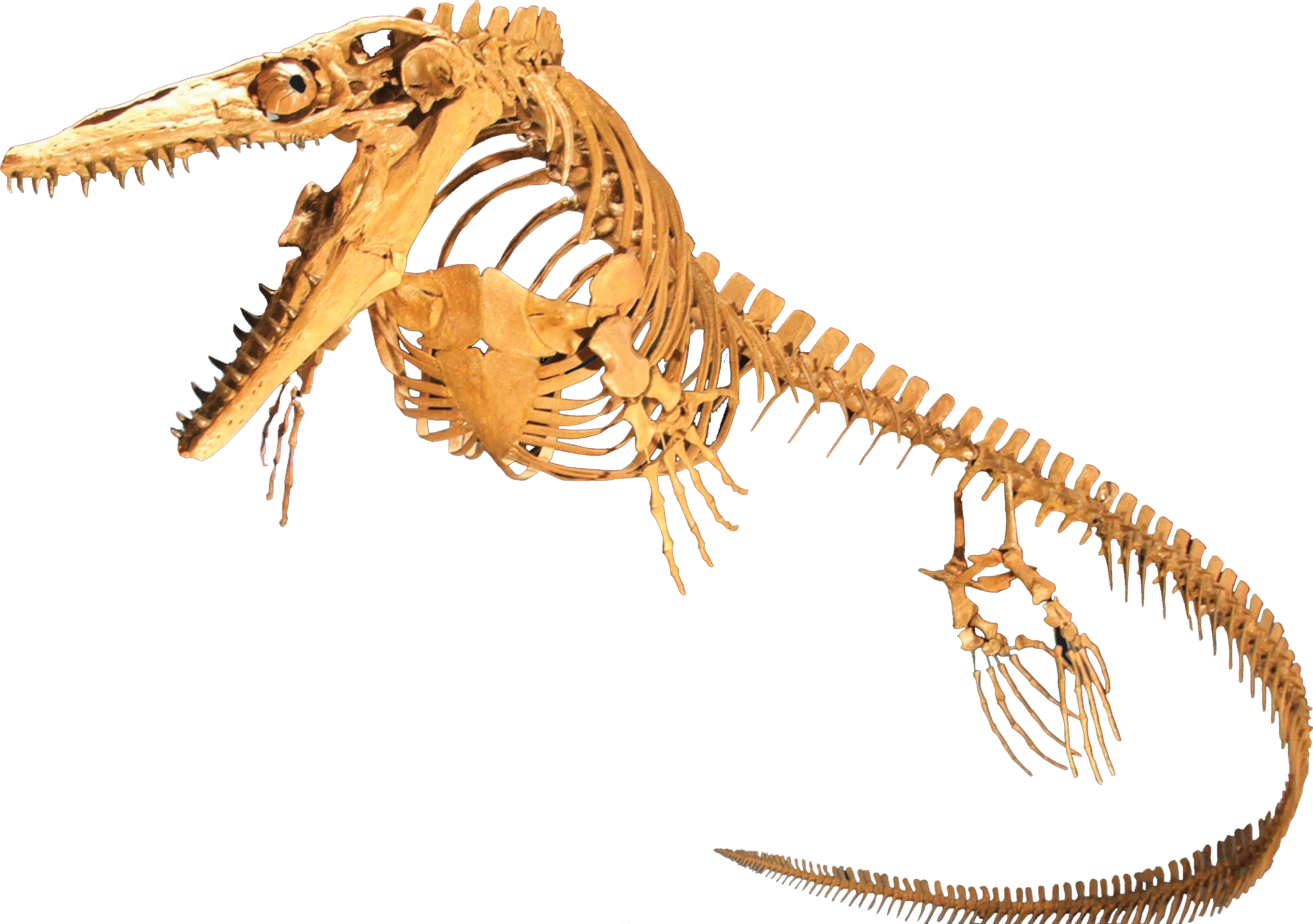 Plesioplatecarpus planifrons mounted skeleton in the Rocky Mountain Dinosaur Resource Center in Woodland Park, Colorado